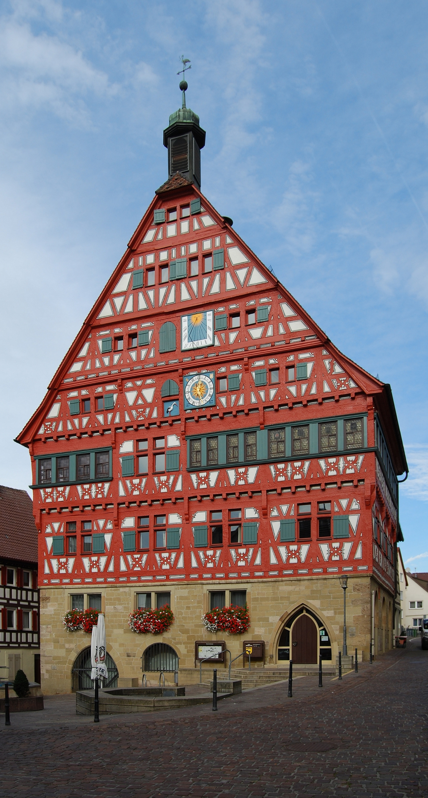 The town hall of Großbottwar, Baden-Württemberg.